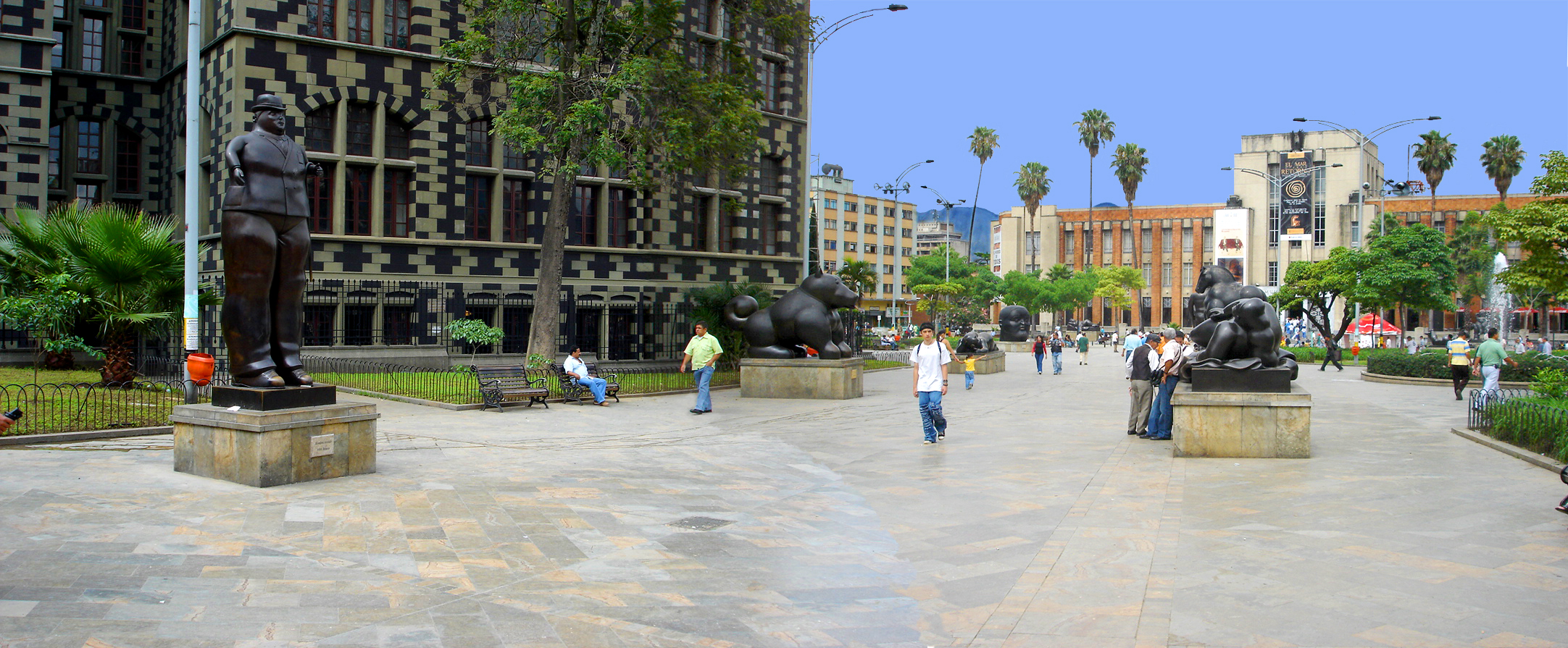 This image has been taken by me, the uploader, on October 23rd, 2006.